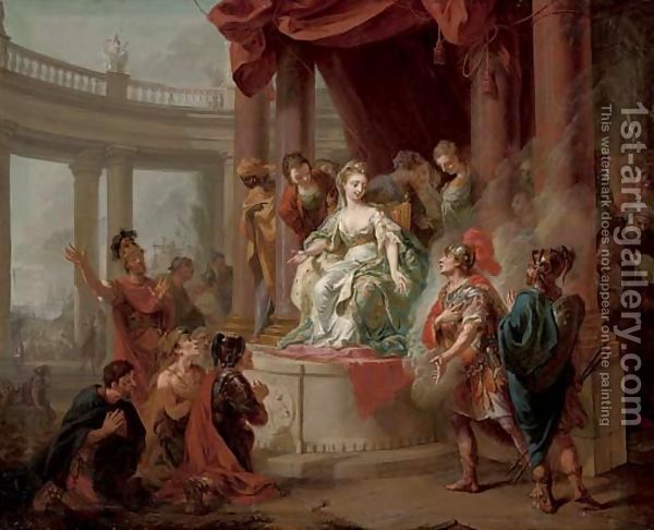 Dido meeting Aeneas by Johann Heinrich the Elder Tischbein